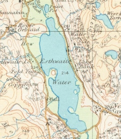 Reproduced from the 1925 OS map